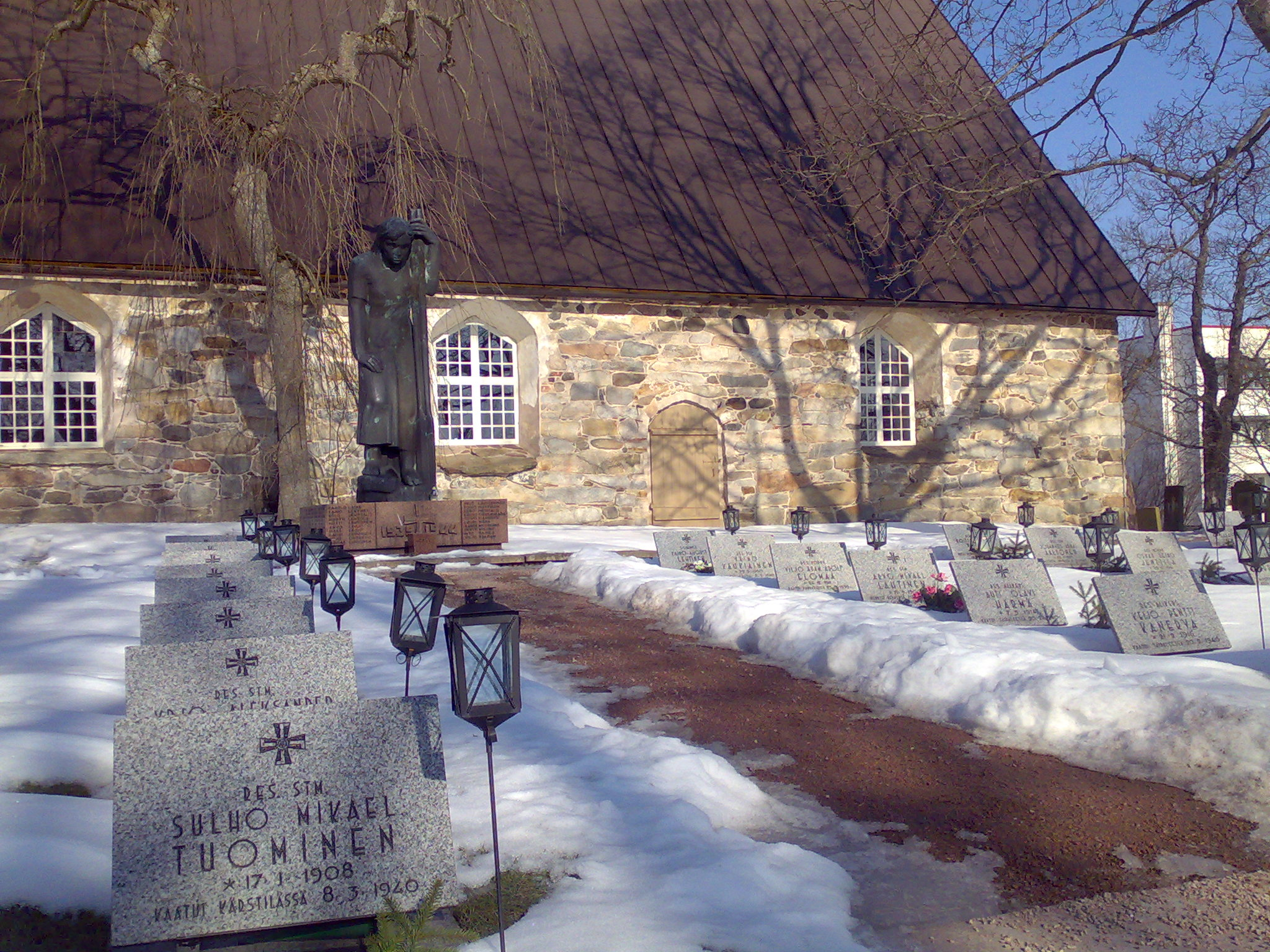 Military cemetary at Church in Uusikaupunki, Finland